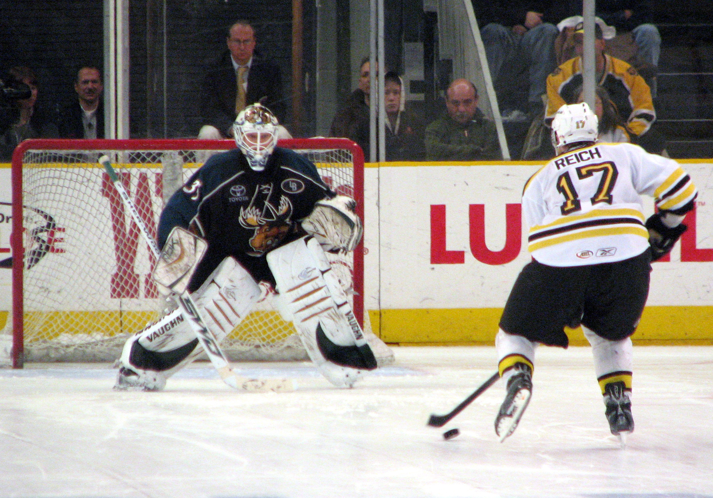 Providence Bruins captain Jeremy Reich in a shootout against Manitoba Moose goaltender Cory Schneider